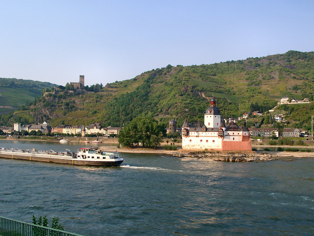 Burg Pfalzgrafenstein nearby Kaub